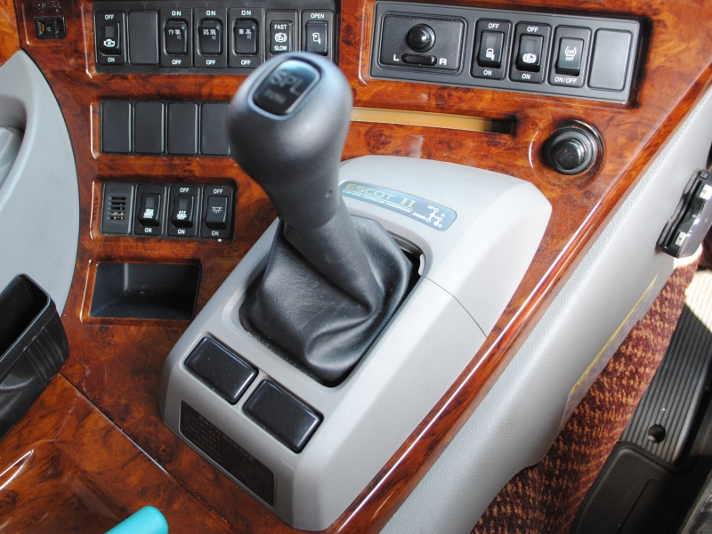 UD trucks Quon ESCOT-II